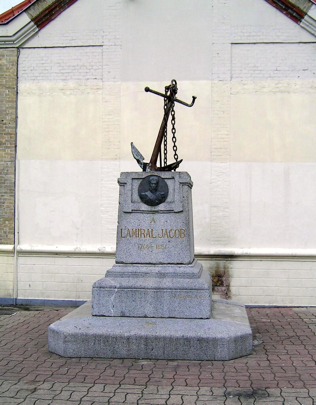 Livry-Gargan (Seine-Saint-Denis) - Monument de l'Amiral Jacob Décembre 2006 Photo personnelle (own work) de Marianna